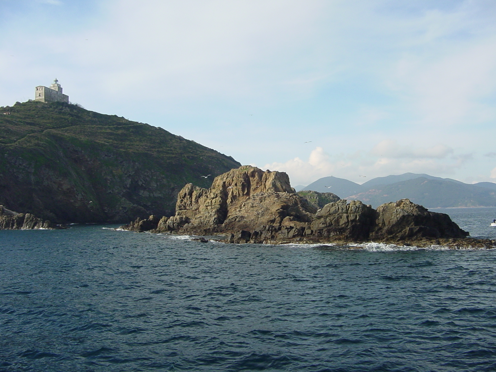 Palmaiola island, the rock on the north and the lighthouse, Italy